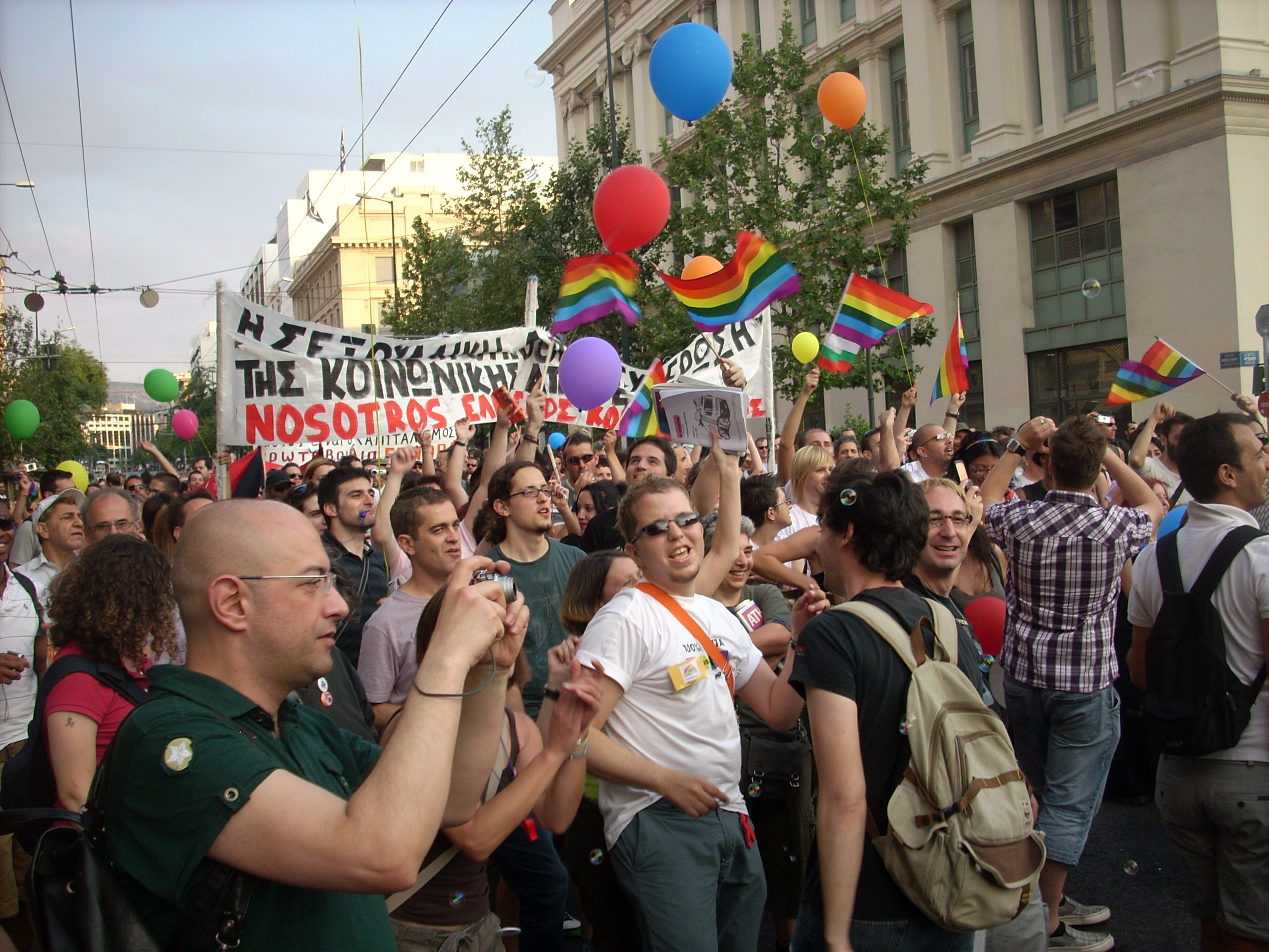 Athens Pride 2009